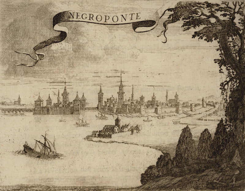 Vincenzo Coronelli - Repubblica di Venezia p. IV. Citta, Fortezze, ed altri Luoghi principali dell' Albania, Epiro e Livadia, e particolarmente i posseduti da Veneti descritti e delineati dal p. Coronelli, Venice, 1688.